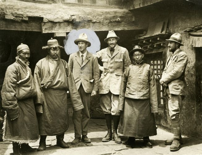 Fotograaf: onbekend